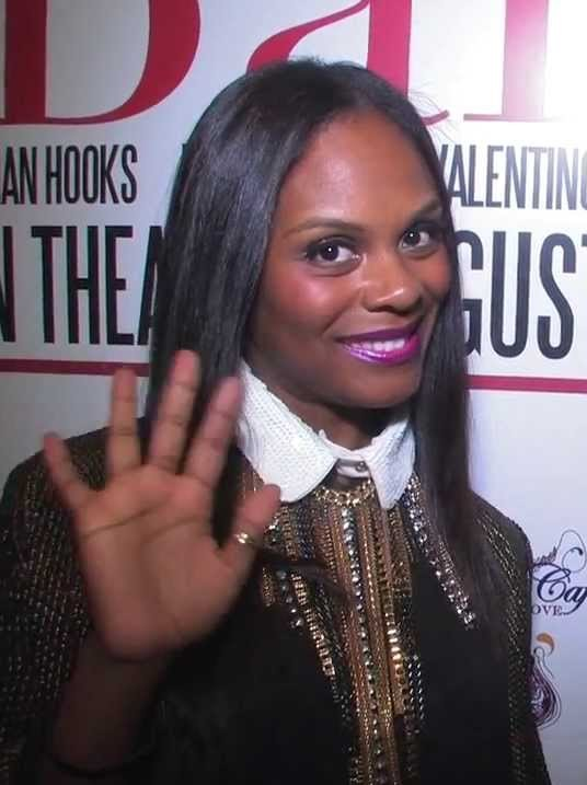 Tabitha Brown at the premiere of Laughing To The Bank in Atlanta, 2013